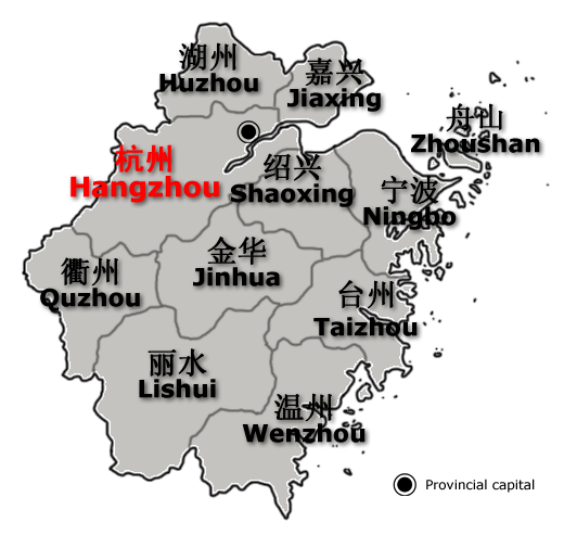 The Administrative Divisions of Zhejiang